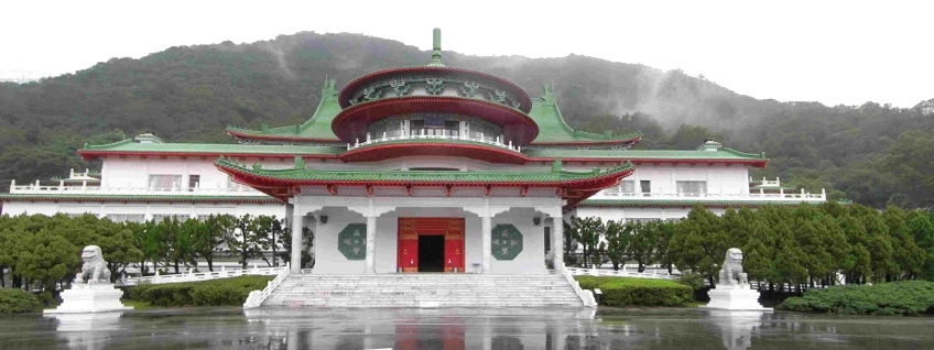 Chungshan Building